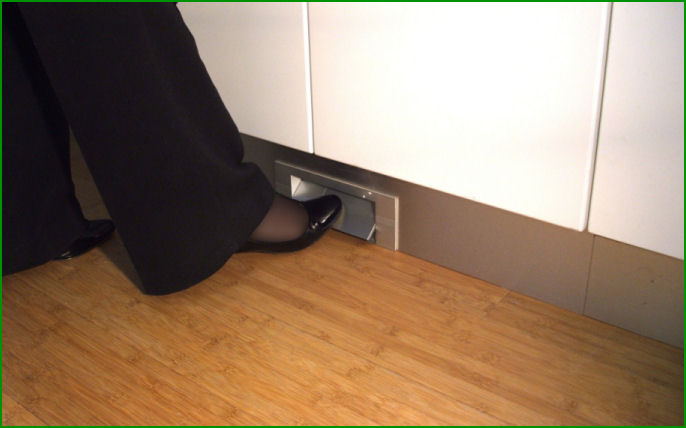 Scoop "designer" Lmtbh- easy operation of the central vacuum cleaner. With innovative patented design and improved operating mechanism